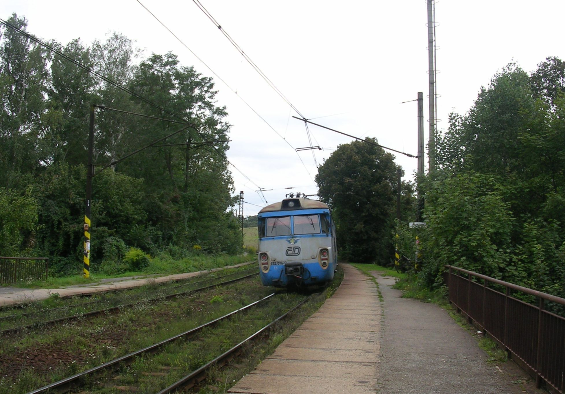 Čerčany, Prague-East District, Central Bohemian Region, the Czech Republic. Train stop of "Pyšely", a train.